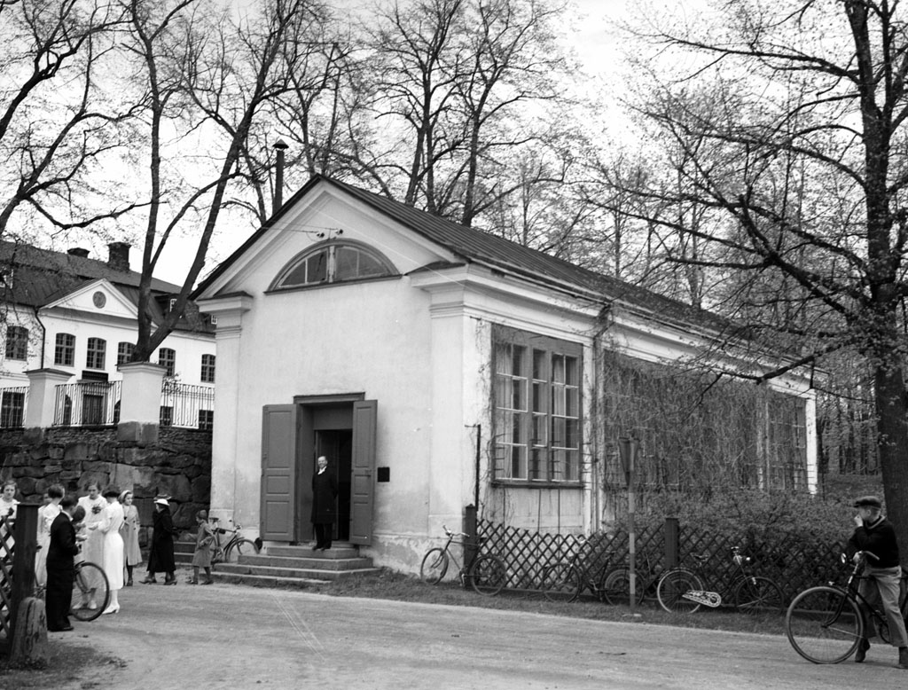 People outside Forsbacka church in Valbo. The church was from 1840 lodged in the orangery of the Manor of Forsbacka Ironworks (viewed to the left), until a new church was built in 1965. Format: Silver gelatin print